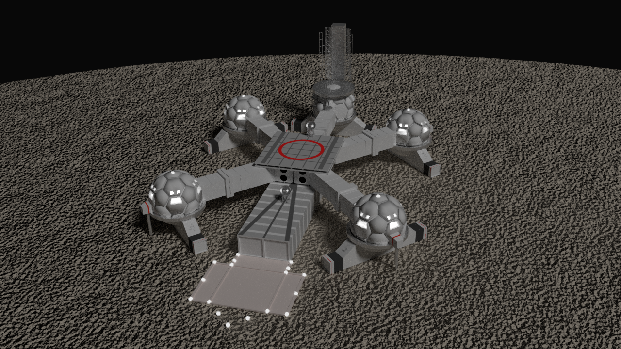 Sample Blender Cycles render after processing with Despeckle filter in compositor to remove fireflies.